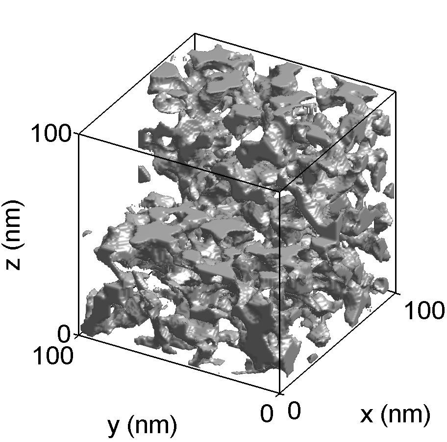 Nanostructure of a resorcinol/formaldehyde gel reconstructed from small-angle scattering (SAXS). The solid phase of the gel is shown as the grey phase.